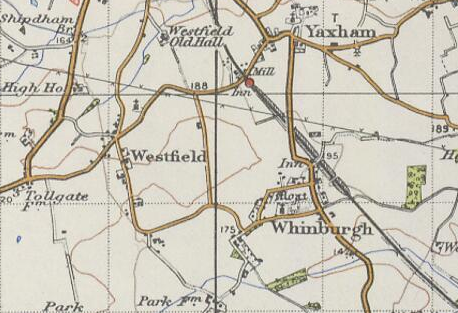 Historical 20th Century map of Whinburgh and Westfield.